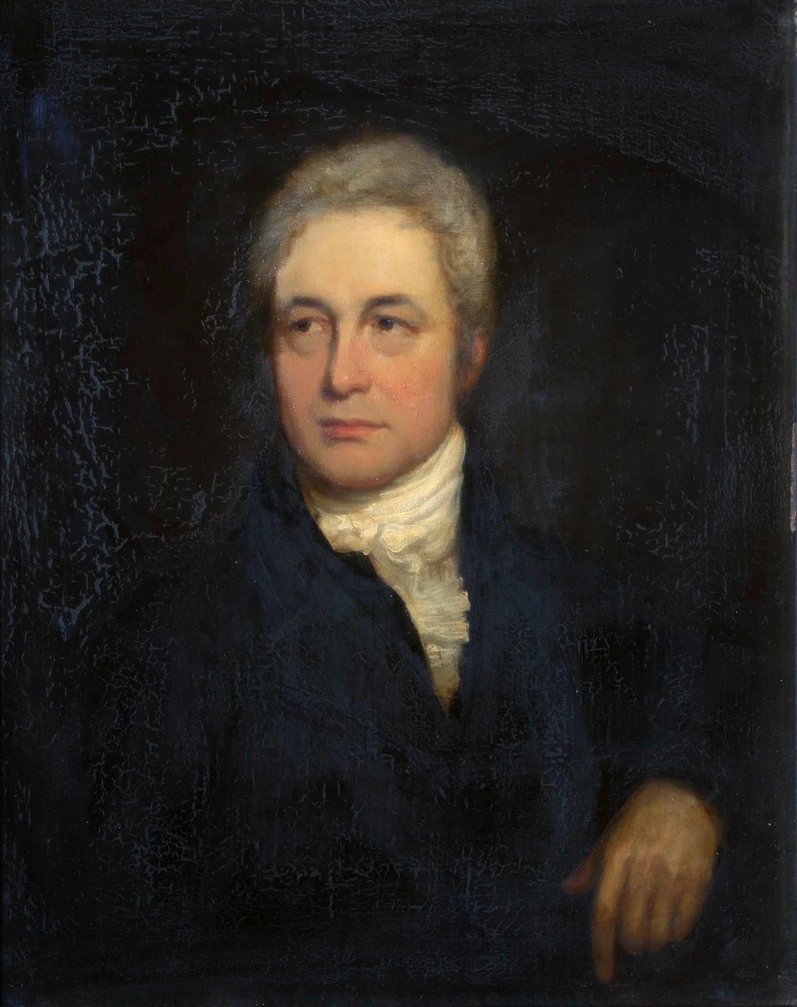 Smirke, Mary; Portrait of Robert Smirke, R.A.; Credit line: owned by Royal Academy of Arts /